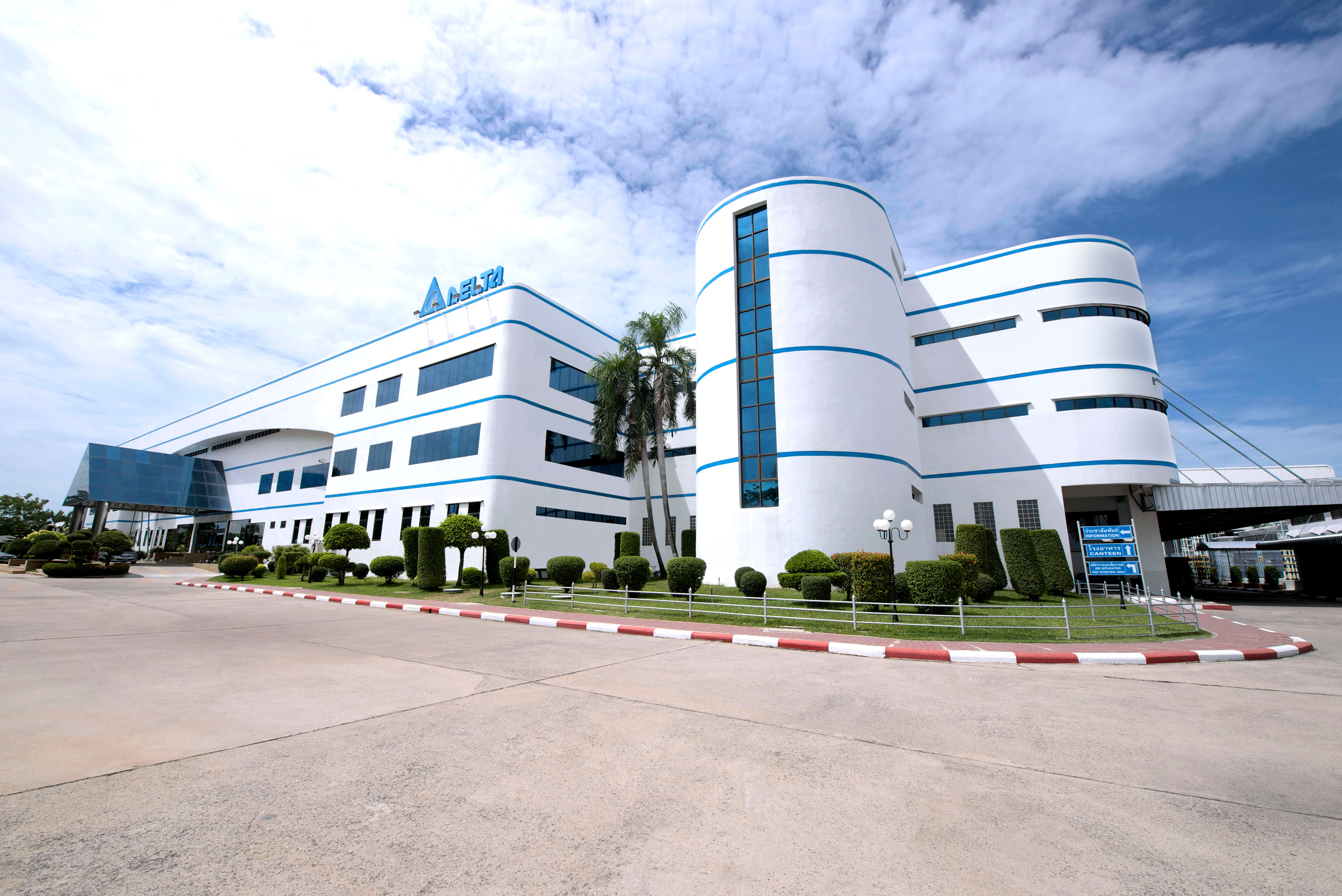 Delta Electronics (Thailand) Head Office